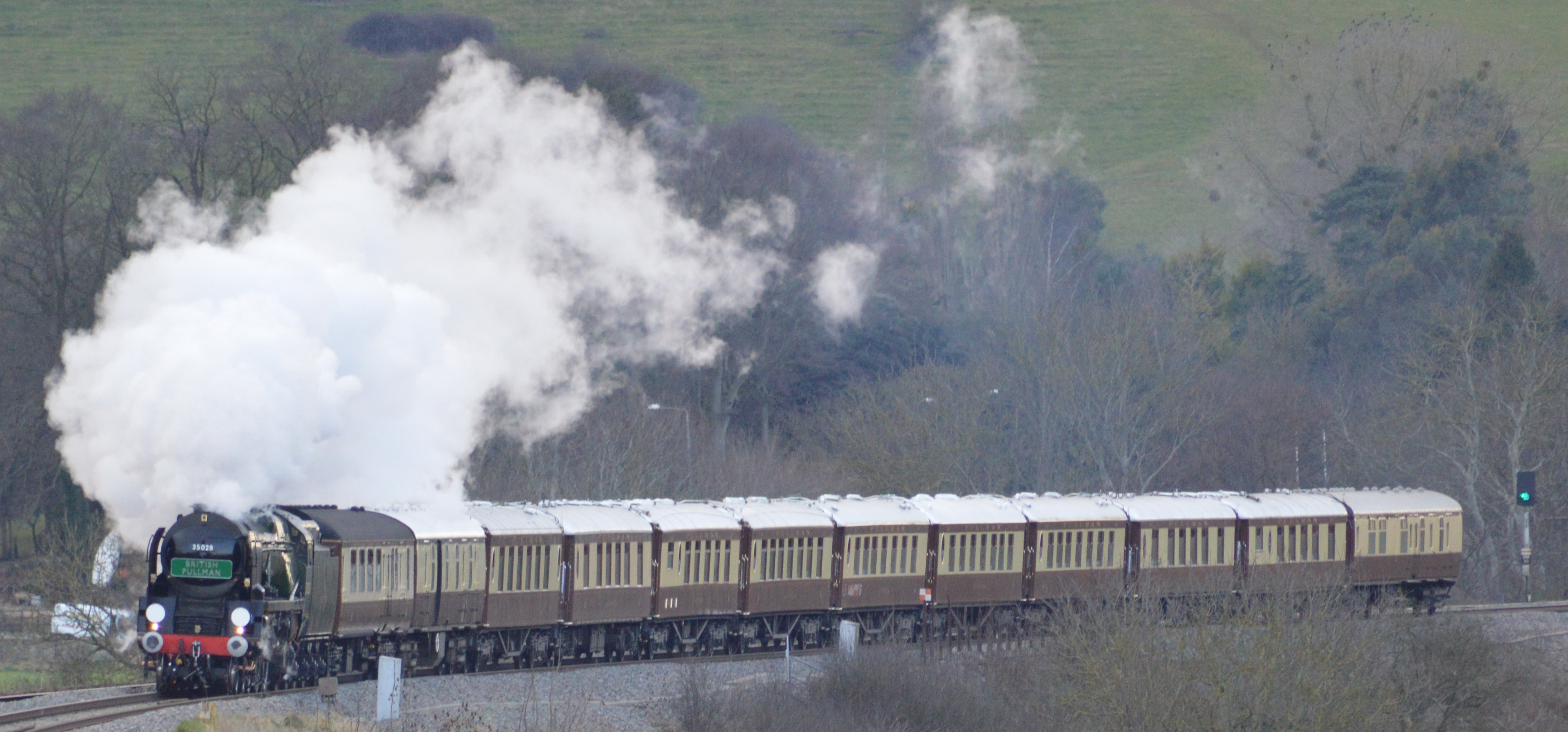 SR Merchant Navy class 35028 Clan Line, west of Bath, on the former-GWR Bristol-Paddington mainline. The train was the return leg of the regular VSOE Victoria-Newbury-Bath-Bristol 'British Pullman'.[1]